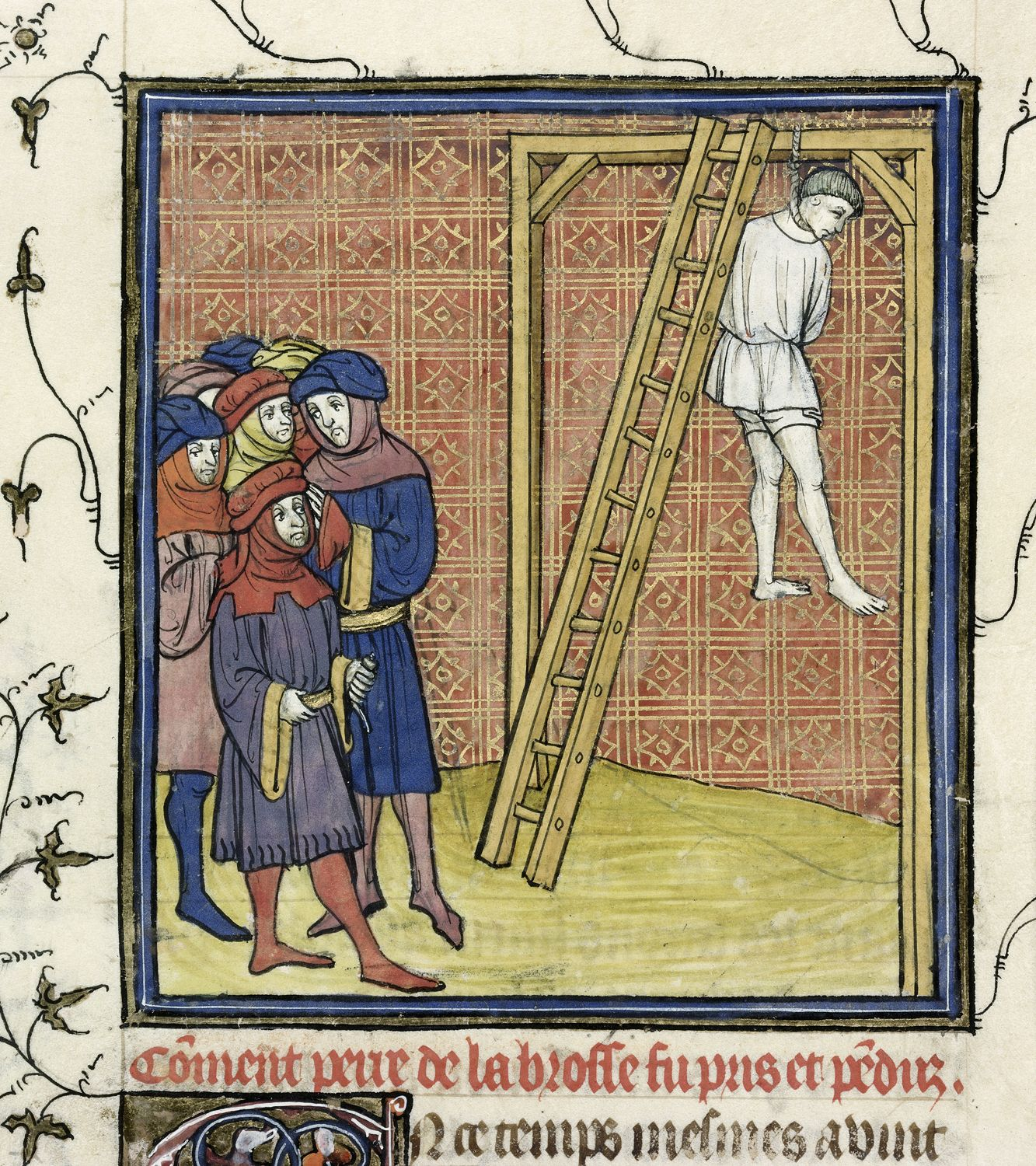 Execution of Pierre de la Brosse. From the Chroniques de France ou de St Denis, BL Royal MS 20 C vii f. 15